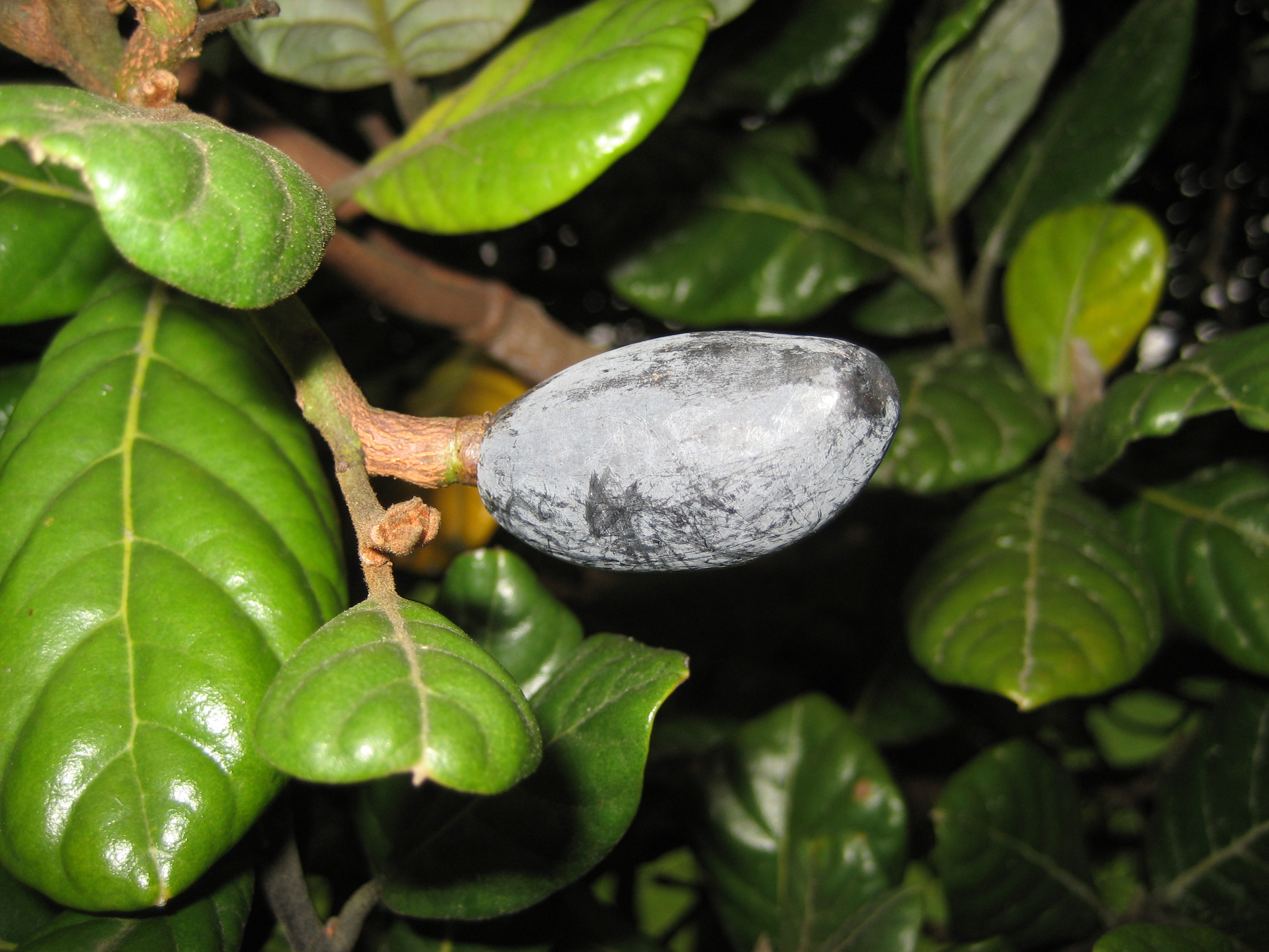 Ripe drupe of the Taraire Beilschmiedia tarairi, in Cornwall Park, Auckland, New Zealand